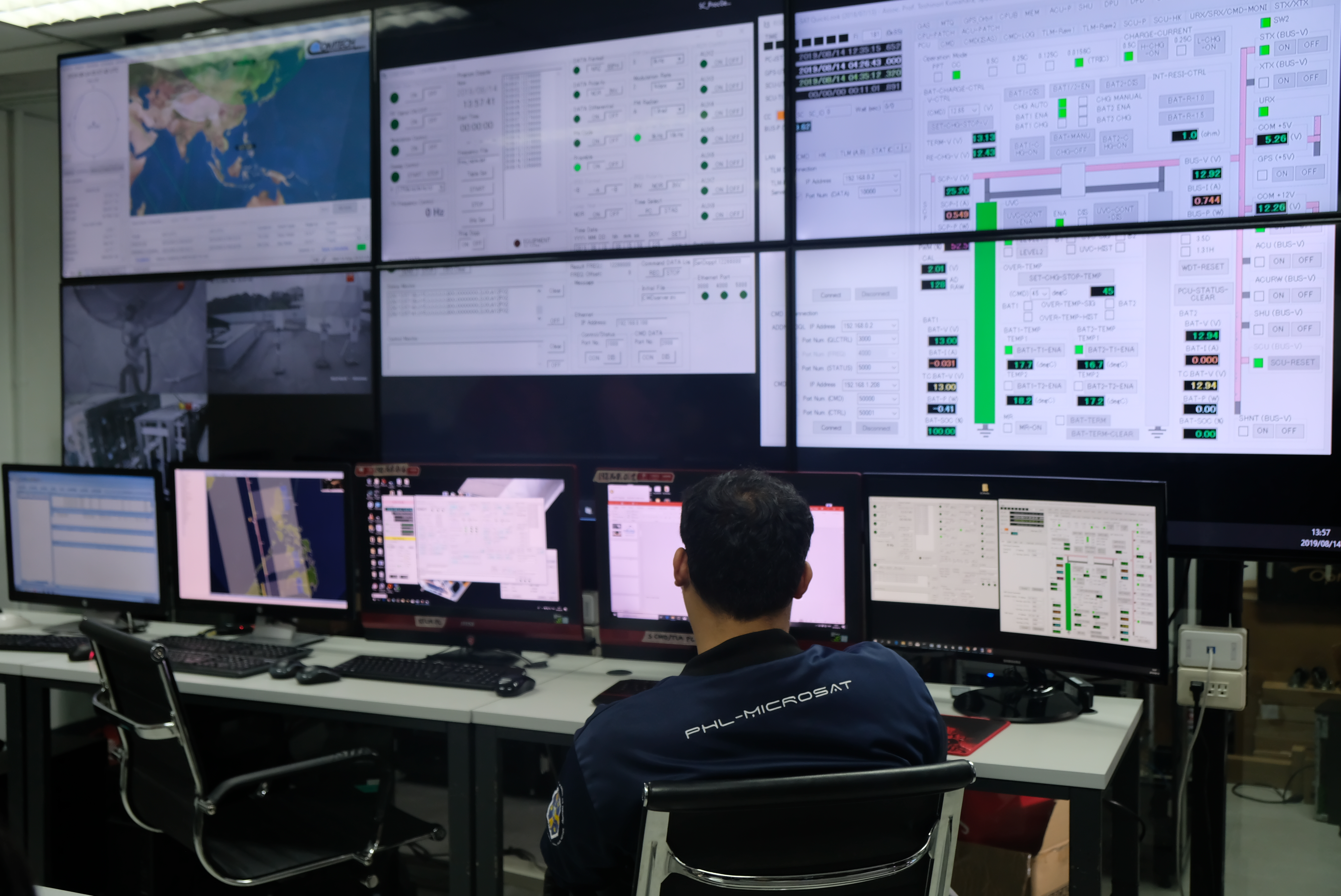 Inside the Philippine Earth Data Resource Observation (PEDRO) Center, located at and operated by the DOST-Advanced Science and Technology Institute, serves as the country’s main gateway in accessing geospatial data from earth observation satellites for various scientific research and operational activities.